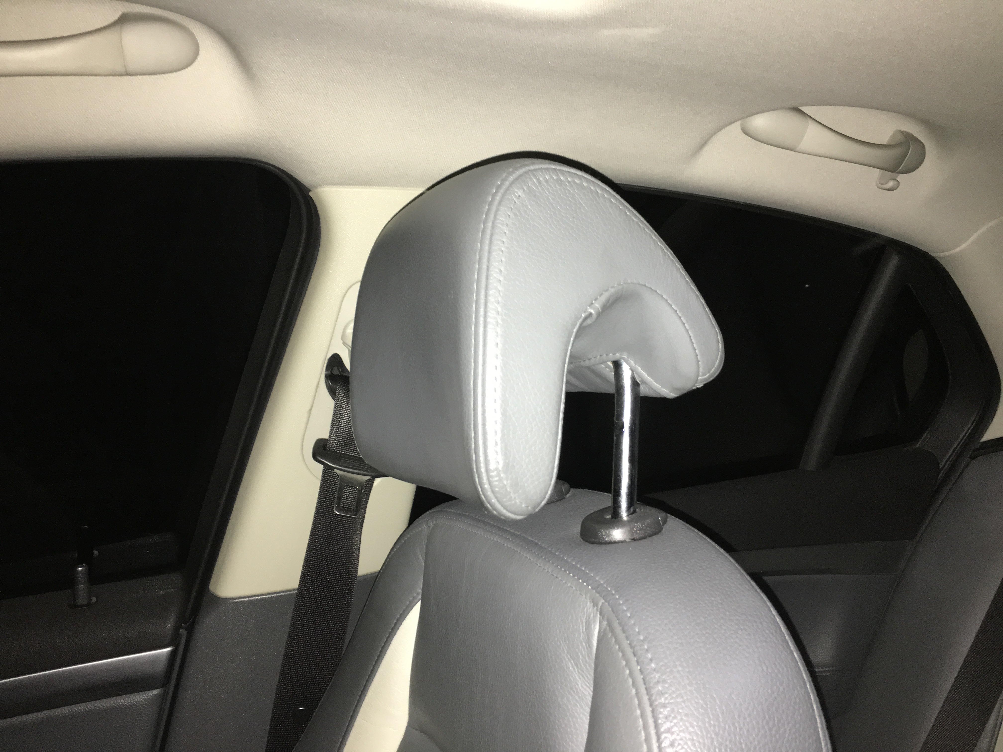 Saab Active Head Restraint generation 2 (SAHR II) in a 2004 Saab 9-3 Aero SportSedan